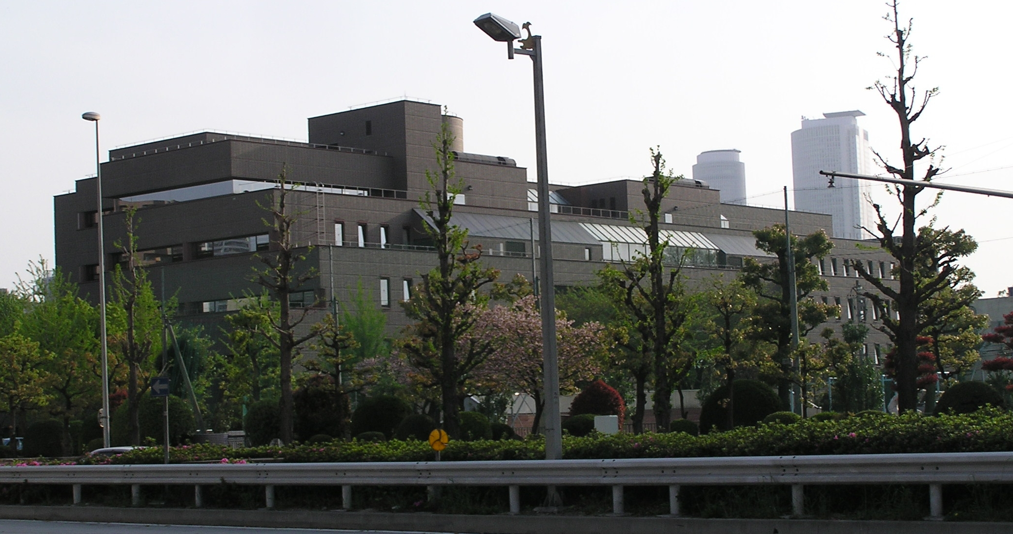 Aichi Prefectural Library